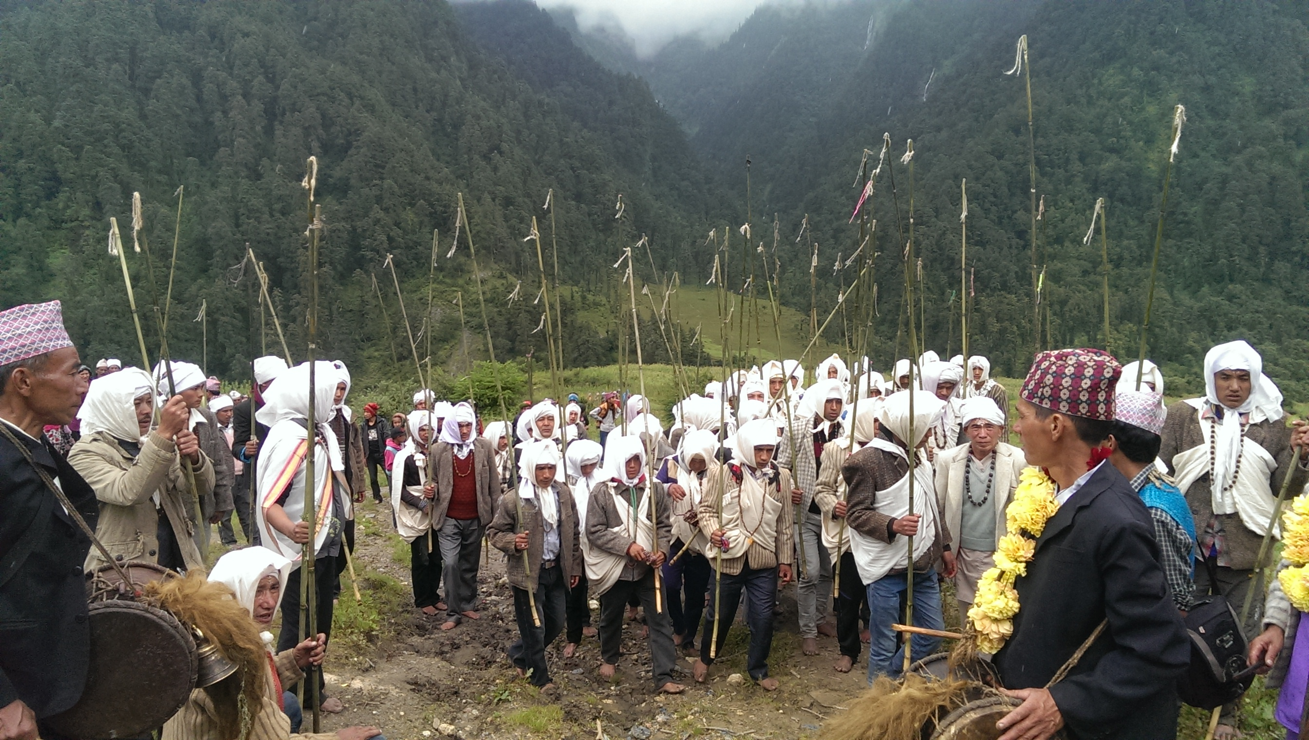 सुर्मा सरोवर जात्रा